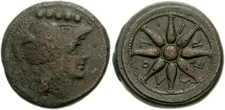 Apulia, Luceria. Circa 211-200 BC. Æ Quincunx (26mm, 15.45 g). Helmeted head of Minerva right; five pellets above Wheel of eight spokes. SNG ANS 699-703; HN Italy 678. Near VF, brown surfaces. From the Tony Hardy Collection.